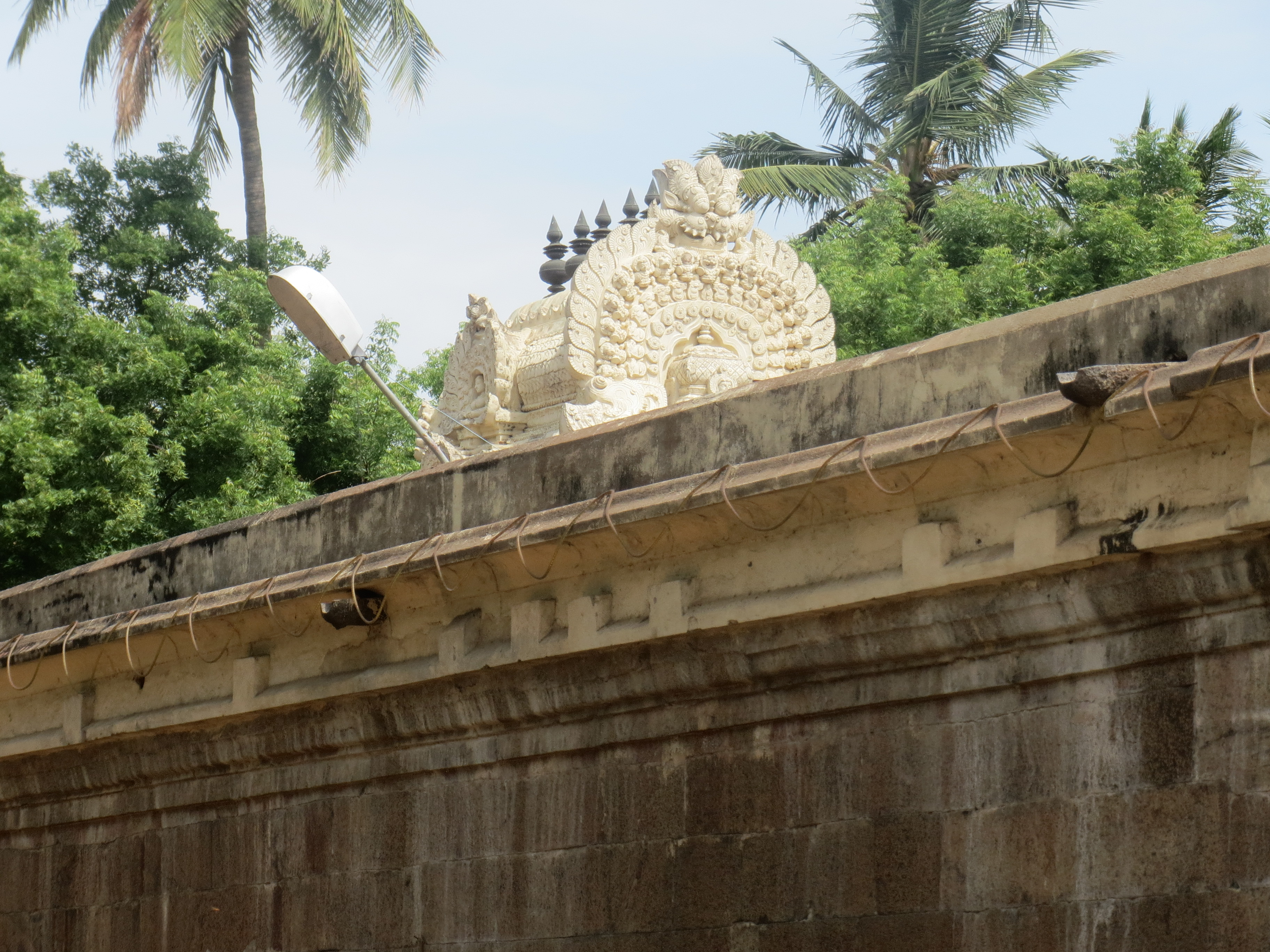 Garpagraha vimanam at Thenupureeswarar koil, Madambakkam, Chennai (Tamil nadu)